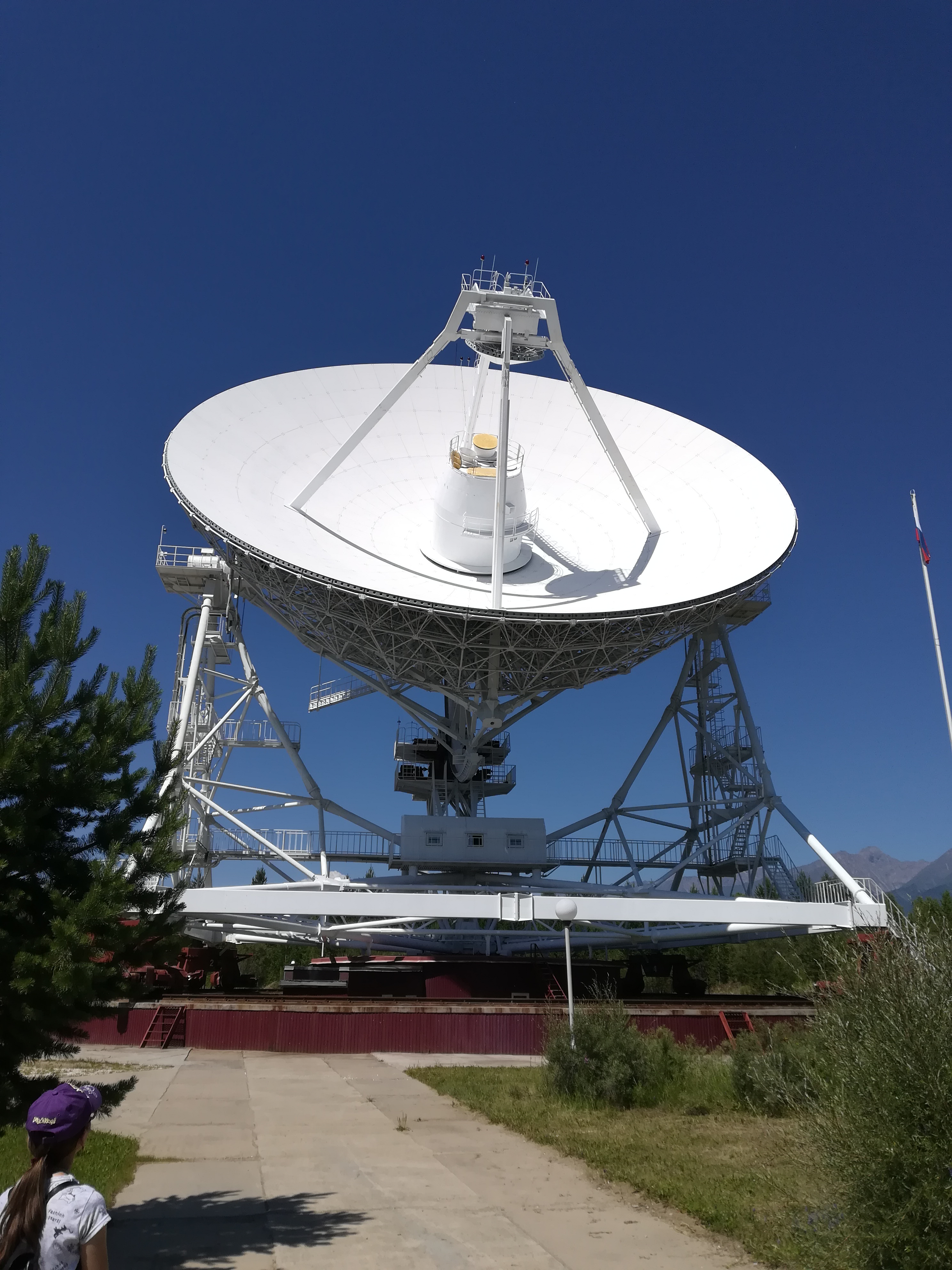 Radio telescope RTF-32 of “Badary” radio astronomical observatory.